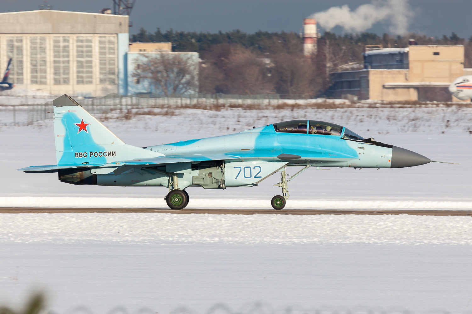 Микоян-Гуревич МиГ-29М2 (МиГ-35)